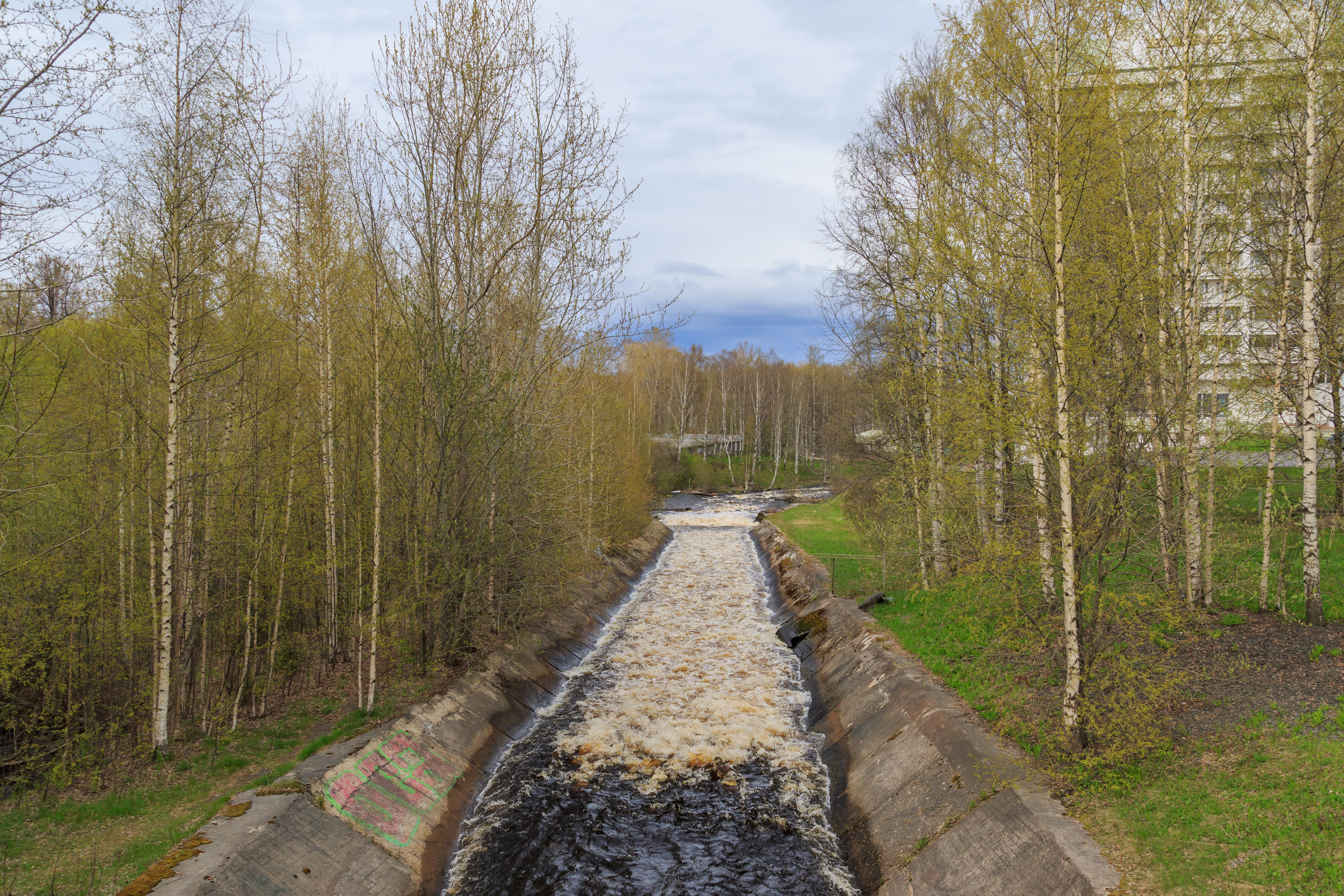 Lososinka River in Petrozavodsk, Republic of Karelia (Russia).